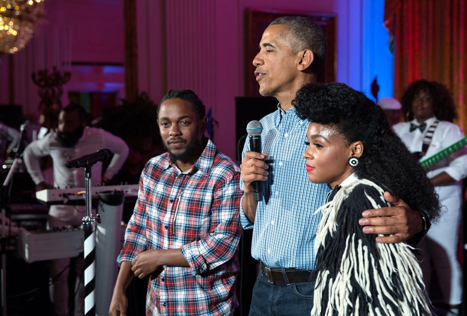 Photograph of Kendrick Lamar, Barack Obama, and Janelle Monáe at a 4th of July celebration at the White House in 2016